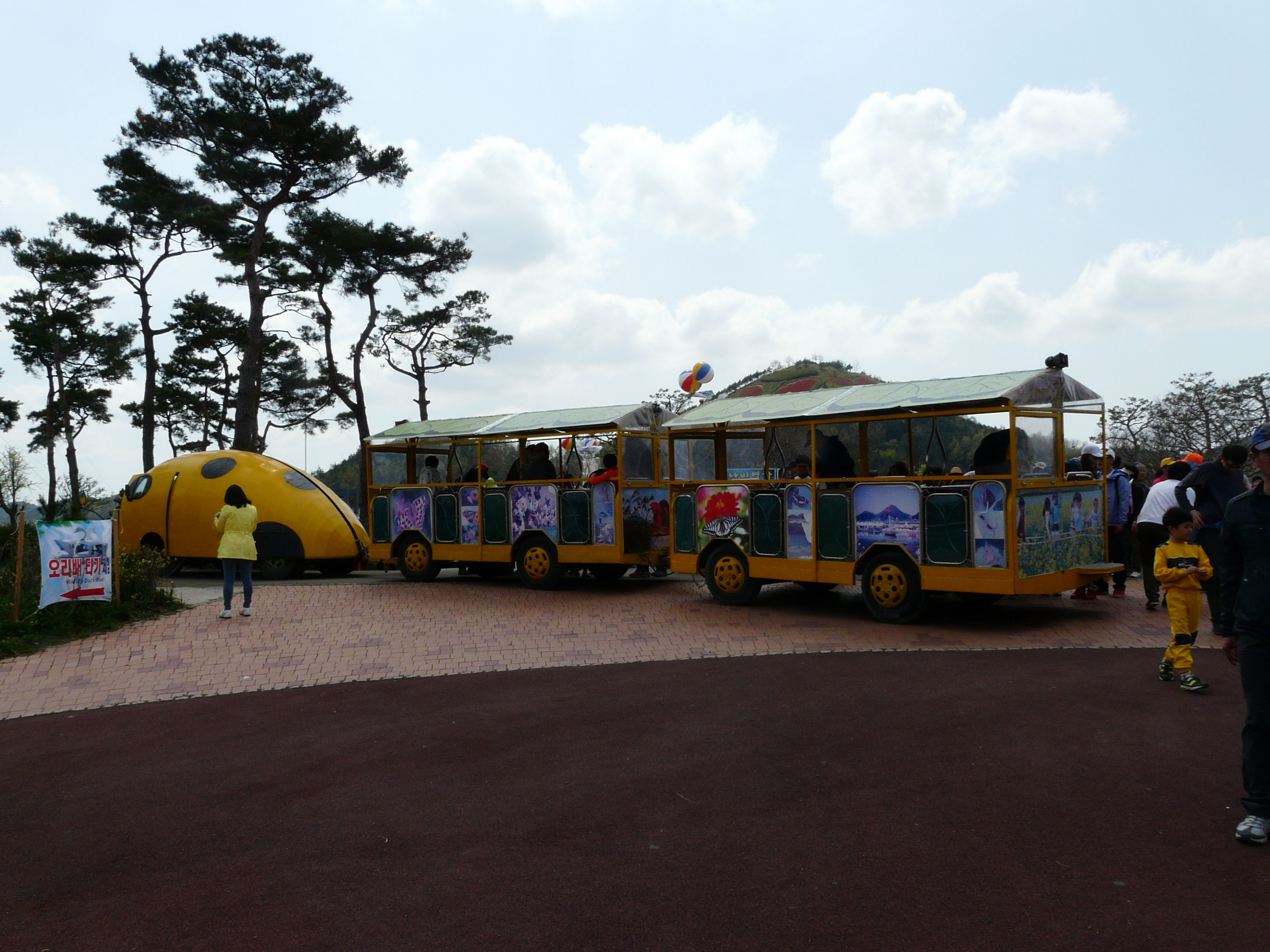 Photos from the Hampyeong Butterfly Festival, Korea.